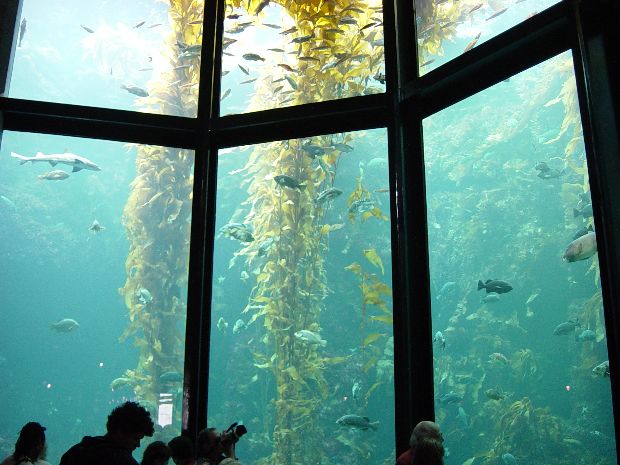 Kelp forest exhibit at the Monterey Bay Aquarium. 2048 x 1536. Smaller low resolution image at Image:KelpAquariumMed.jpg. Image by User:Leonard G.